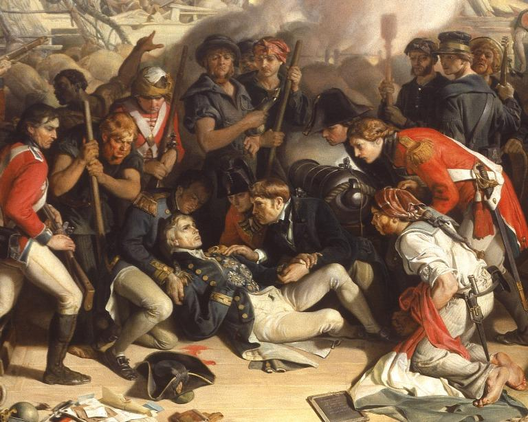 A detail from the wall painting in the Royal palace of the Palace of Westminster, London, England, by Daniel Maclise